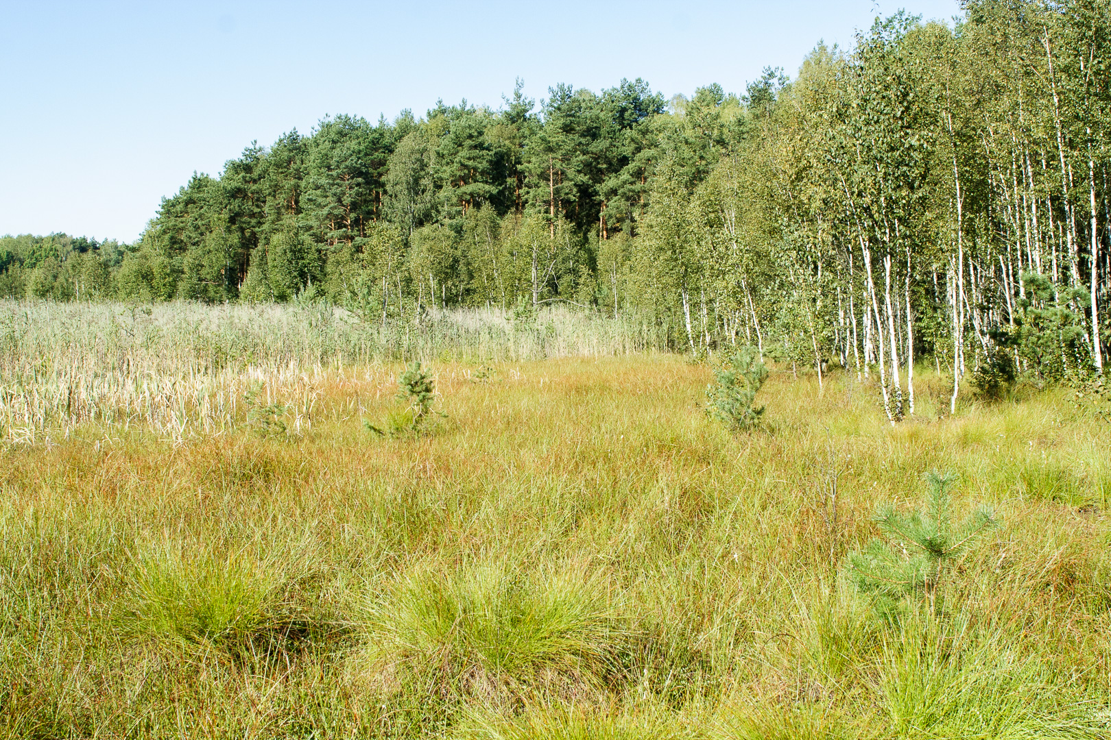 Torfy Lake [Lake Peats], a mire (peatland) in the northern part. Aleksandrów, Wawer, Warsaw, Poland. This is a photography of protected area with CRFOP ID PL.ZIPOP.1393.PK.72